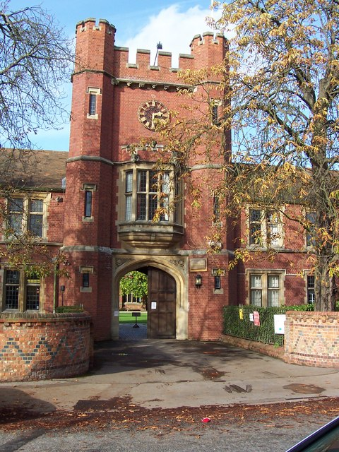 Wantage Hall, near to Reading, Great Britain.